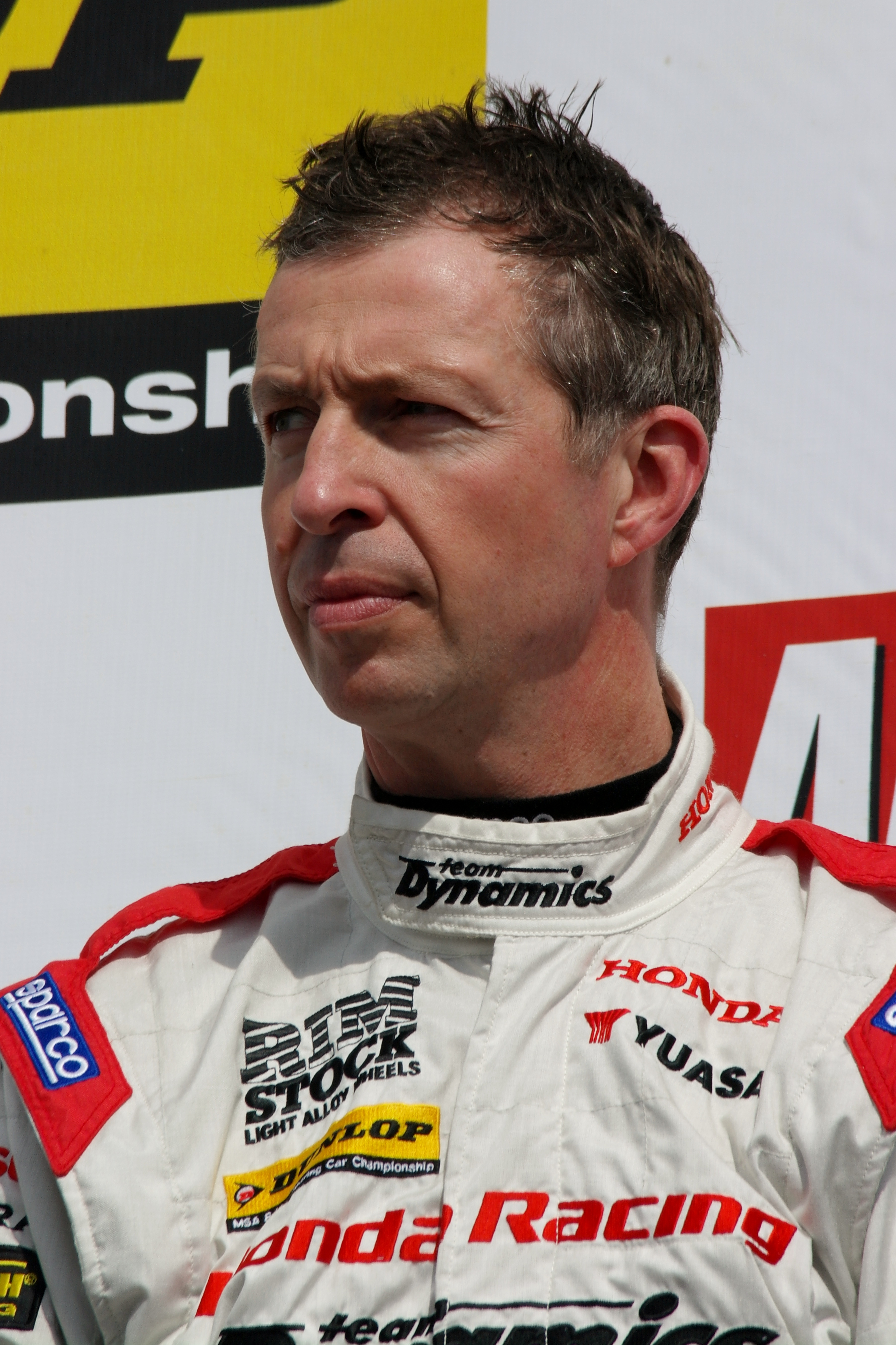 Matt Neal as a driver for Honda Yuasa Racing Team at the Donington Park round of the 2012 British Touring Car Championship.